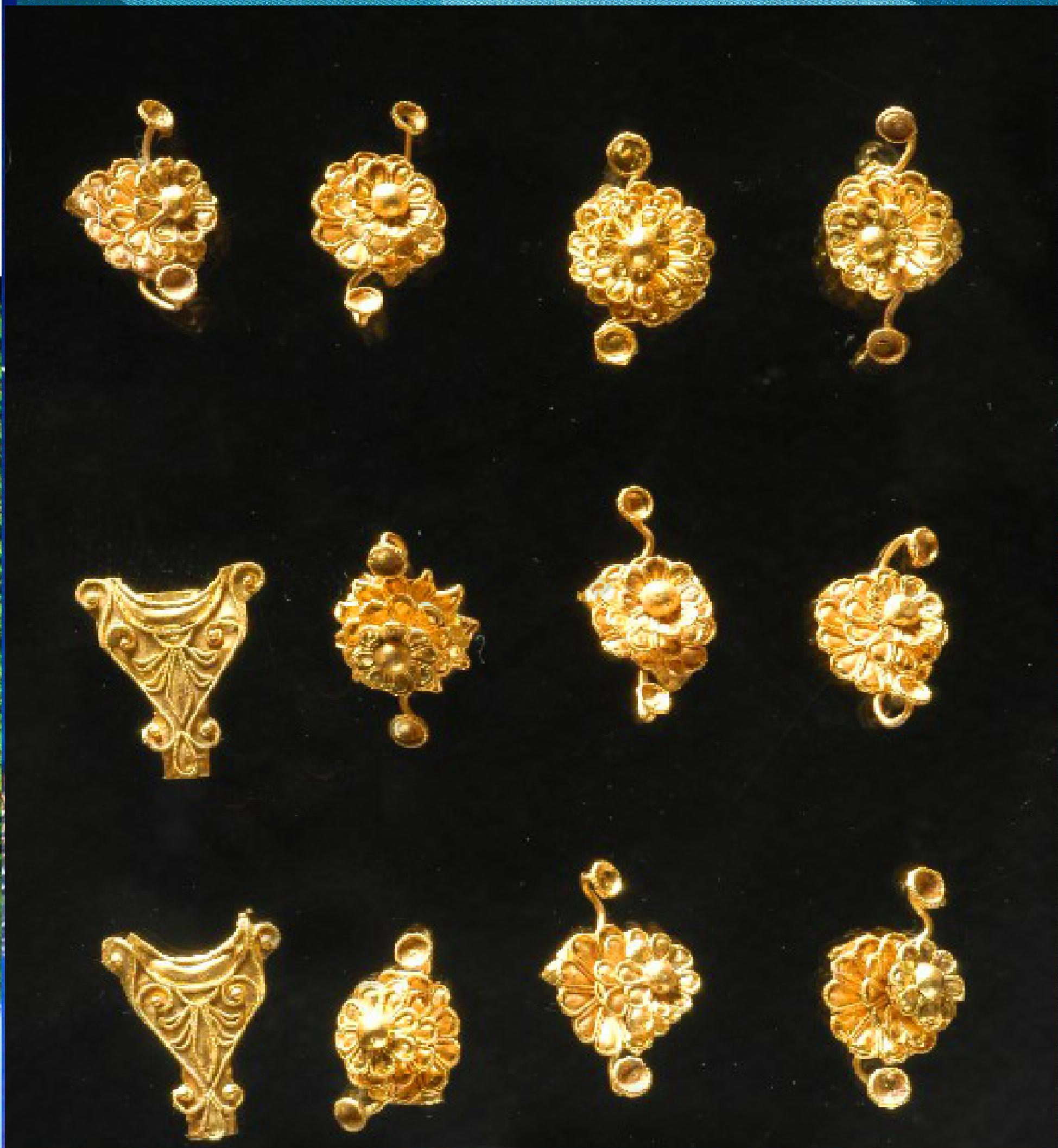 Gold necklace, Michalitsi, Greece